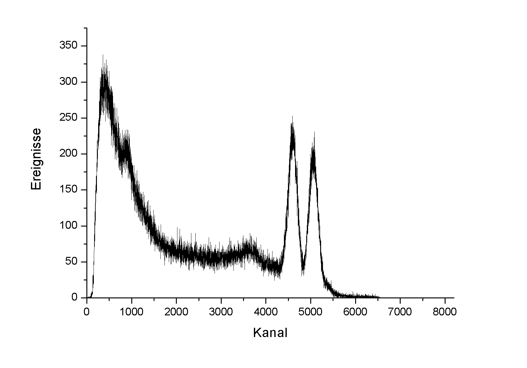 Gamma spectrum of 60Co, observed with a scintillation detector. x-axis in detector channels, designation in German.